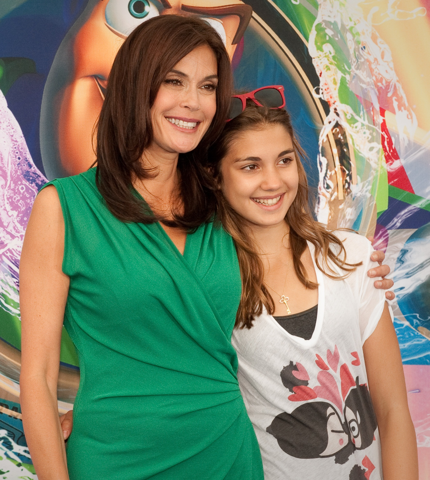 Teri Hatcher and her daughter at the World of Color premiere in Disney California Adventure Park in June 2010.